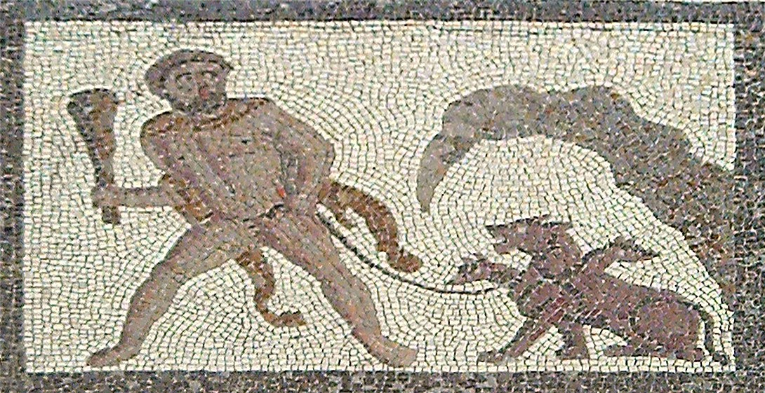 Hercules and Cerberus. Detail of The Twelve Labours Roman mosaic from Llíria (Valencia, Spain).